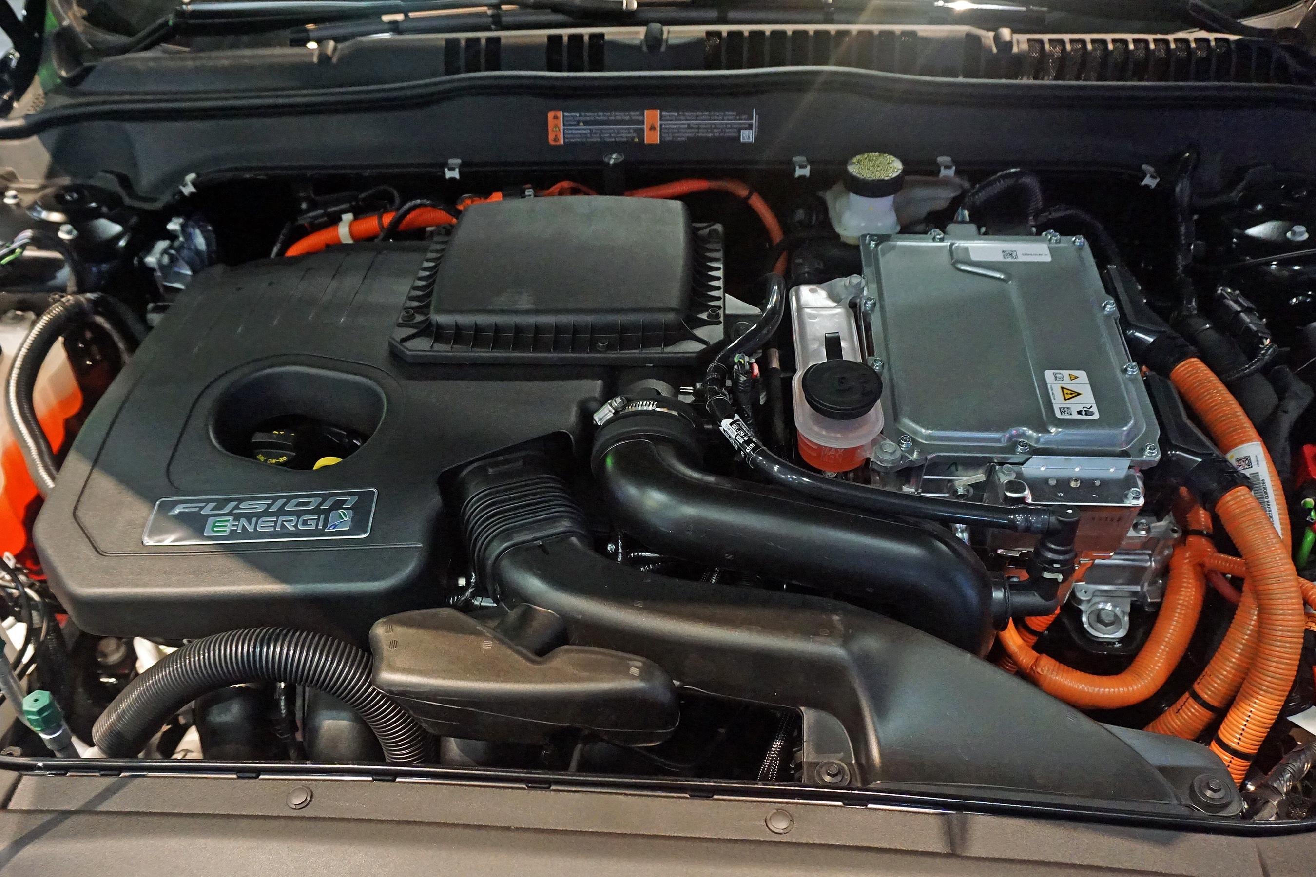 Hybrid 2.0L gasoline powered-engine (left) and inverter system controller on top of the AC electric motor of the 2017 Ford Fusion Energi plug-in hybrid exhibited at the 2017 Washington Auto Show, DC, US